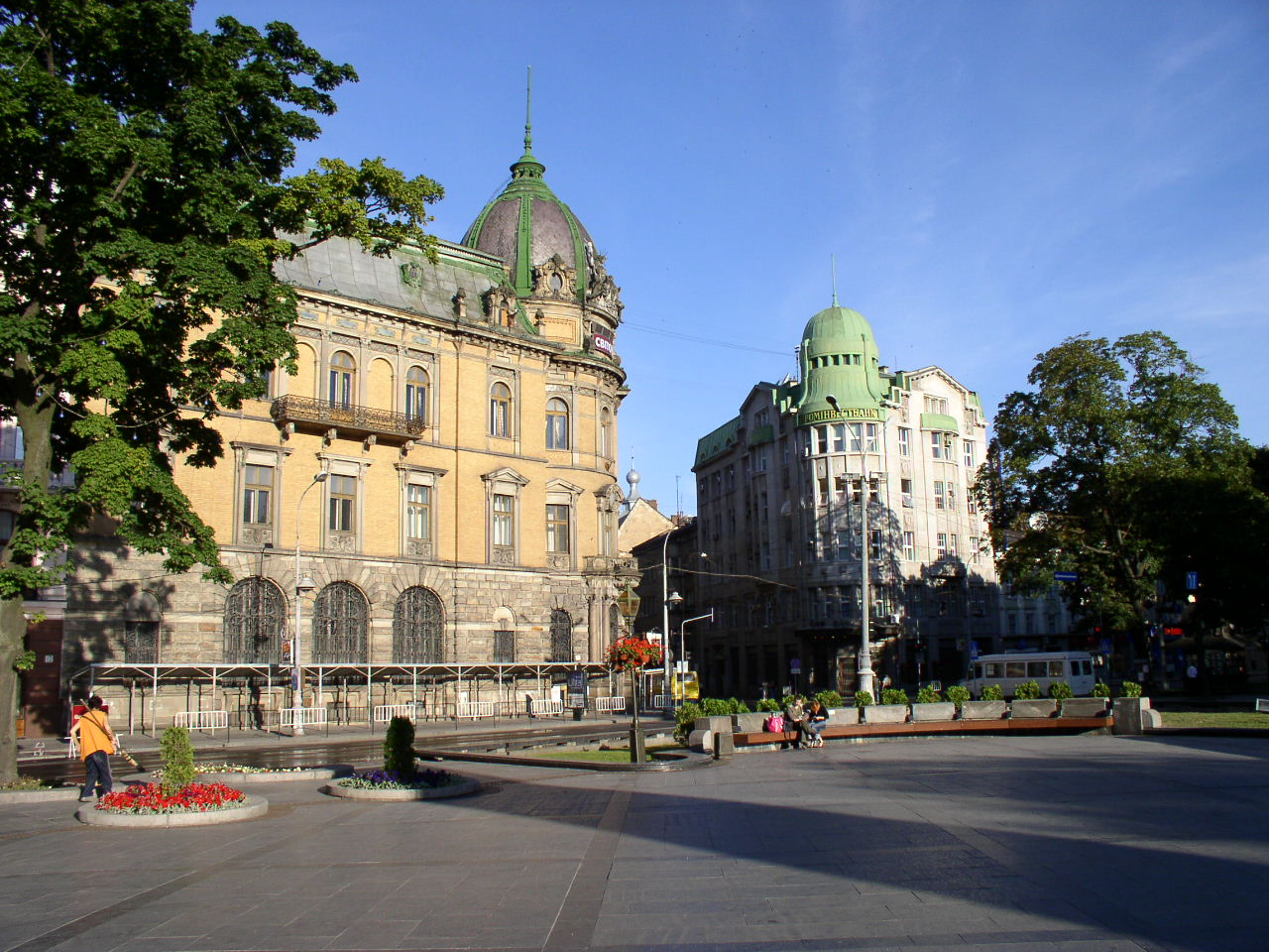 Peace square. Lviv, Ukraine.